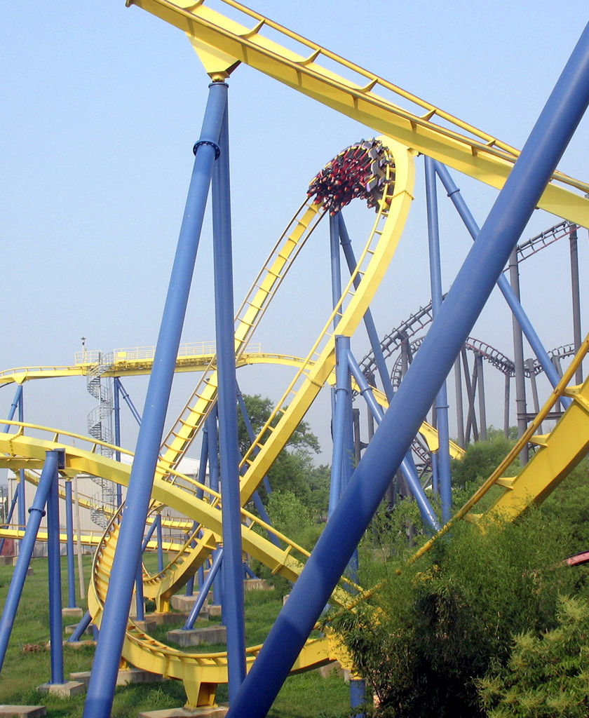 Chang , montagnes russes à Six Flags Kentucky Kingdom